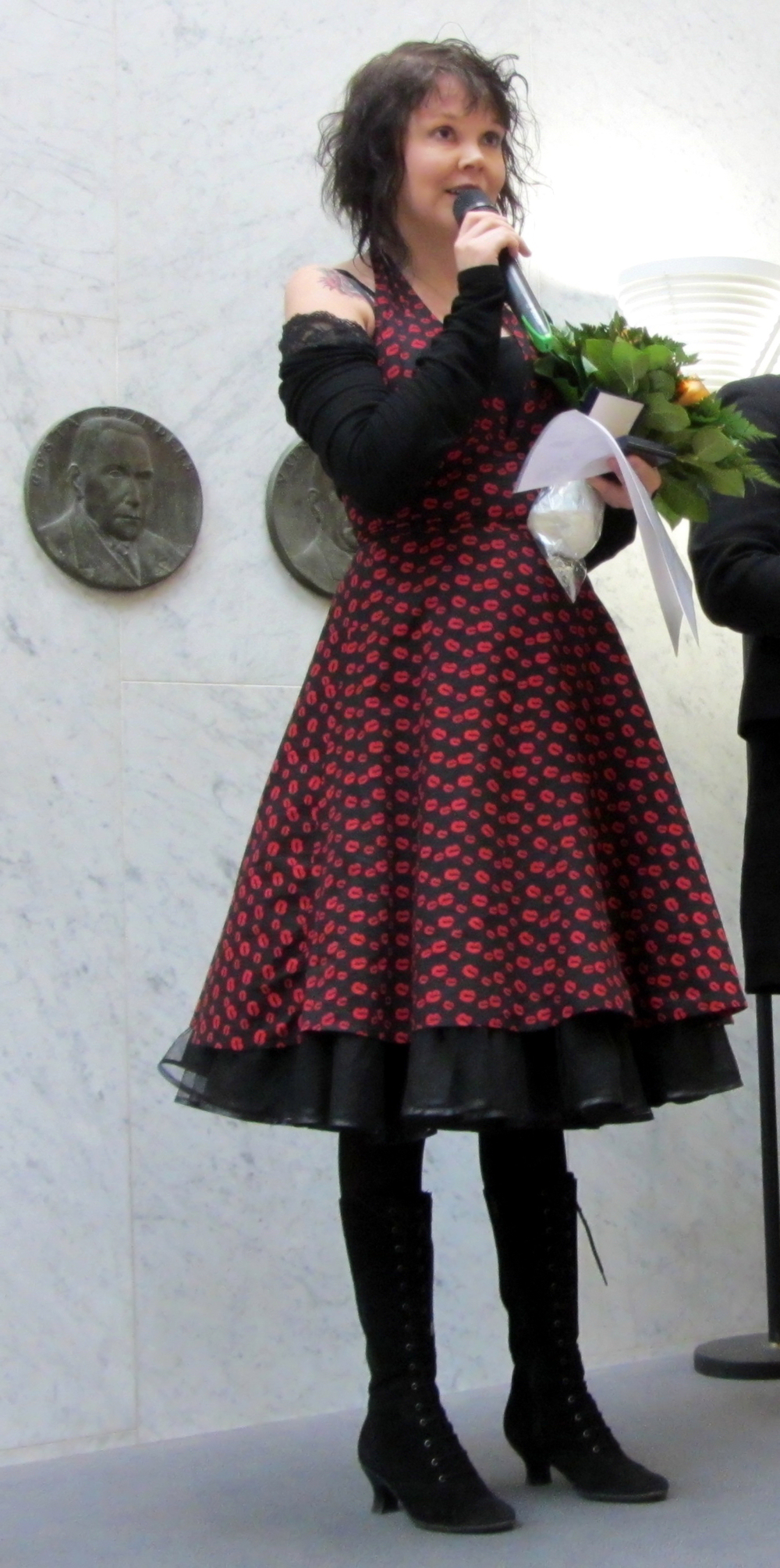 Finnish writer Katja Kettu won the Thanks for the Book Award on World Book Day in Helsinki in 2012